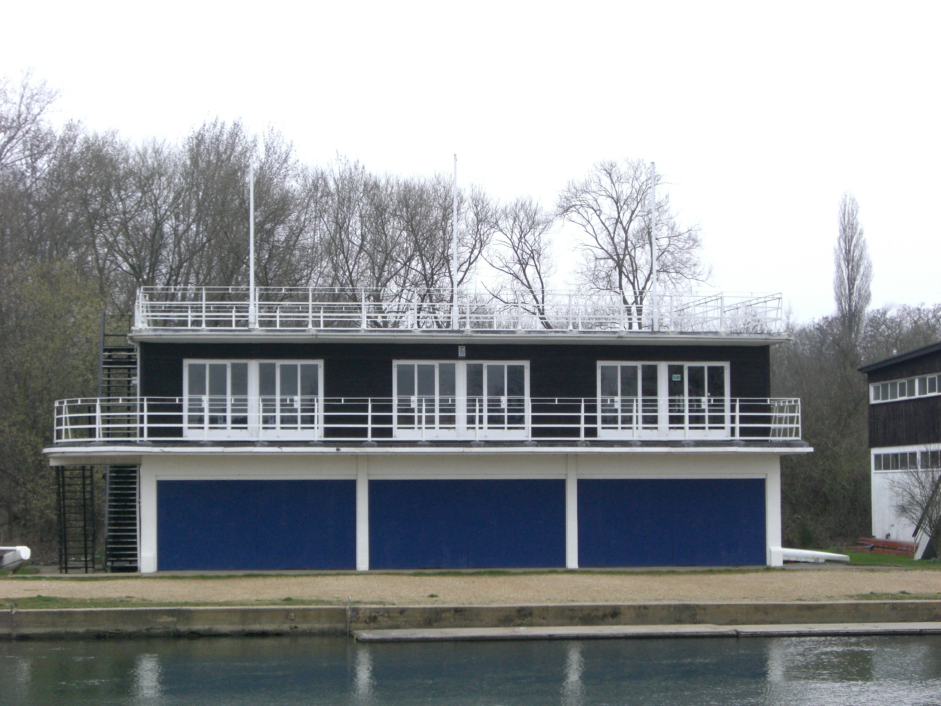 Boathouse on the River Thames, just south of Folly Bridge in Oxford.